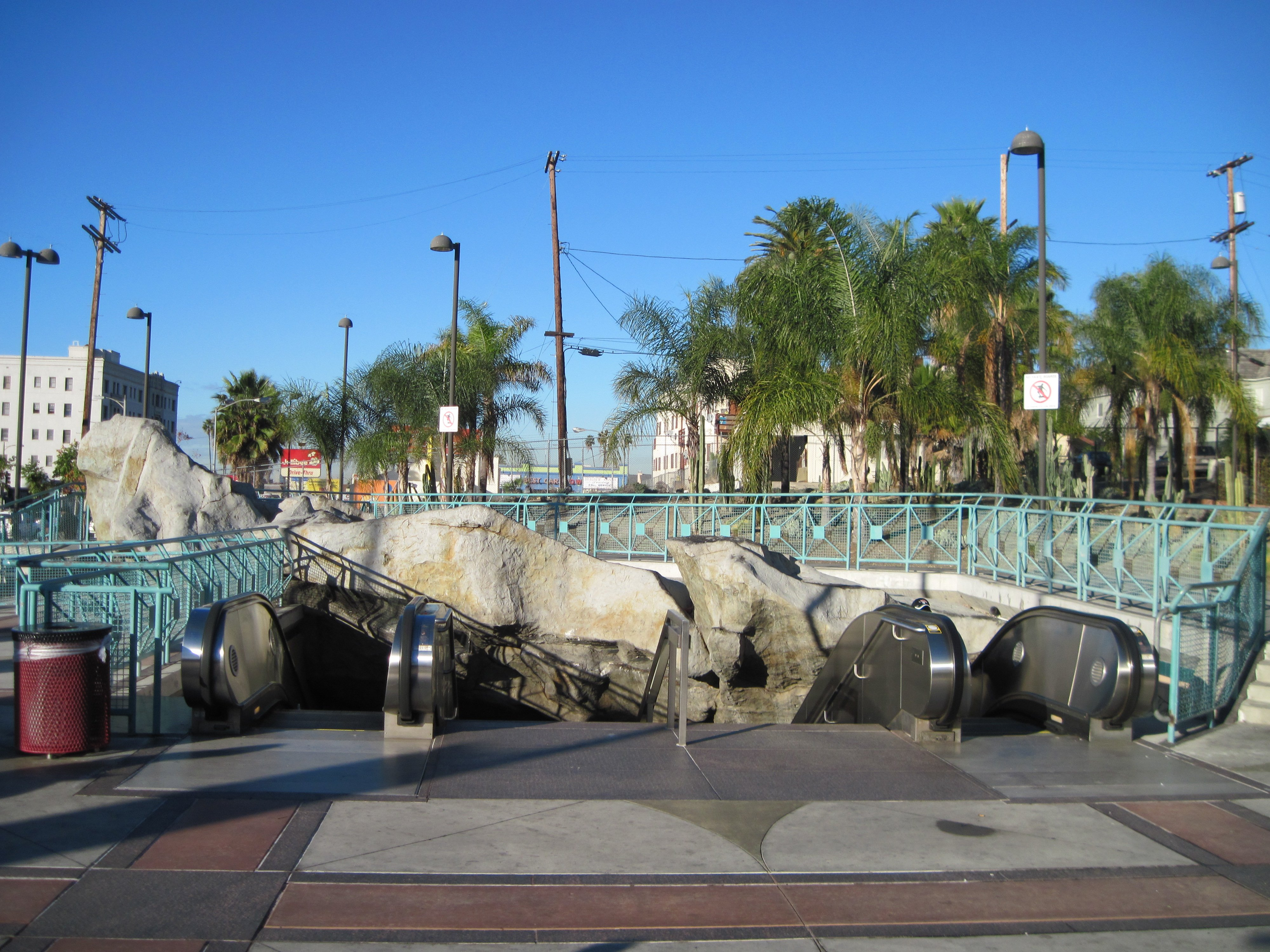 The entrance to the Los Angeles County Metropolitan Transportation Authority's Vermont/Beverly station, serving the Metro Red Line in Los Angeles, California, USA.